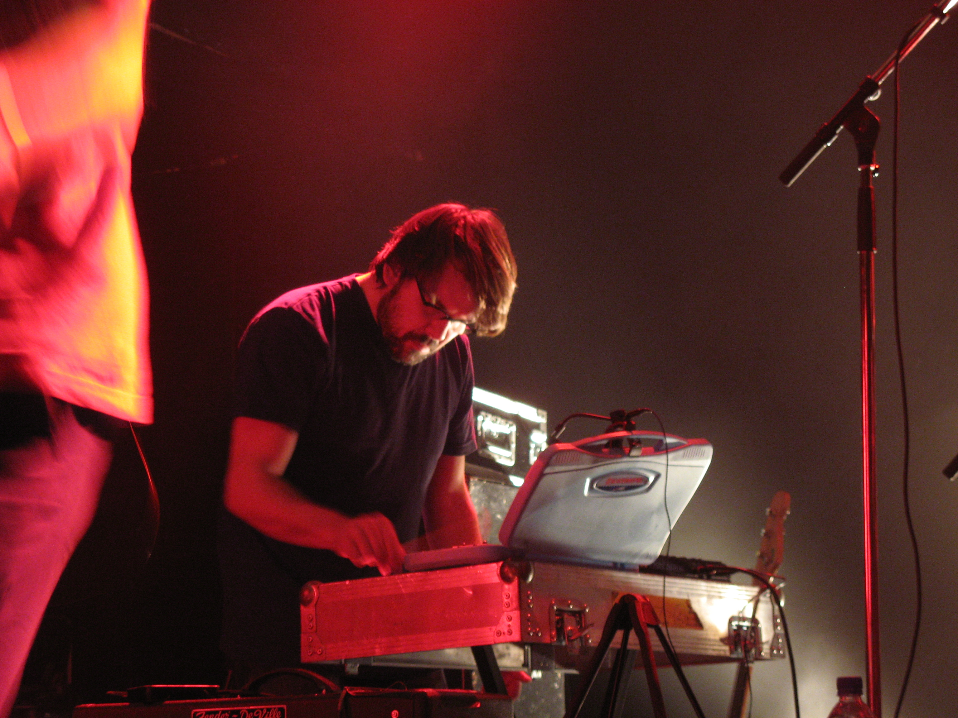 Micha Acher of The Notwist